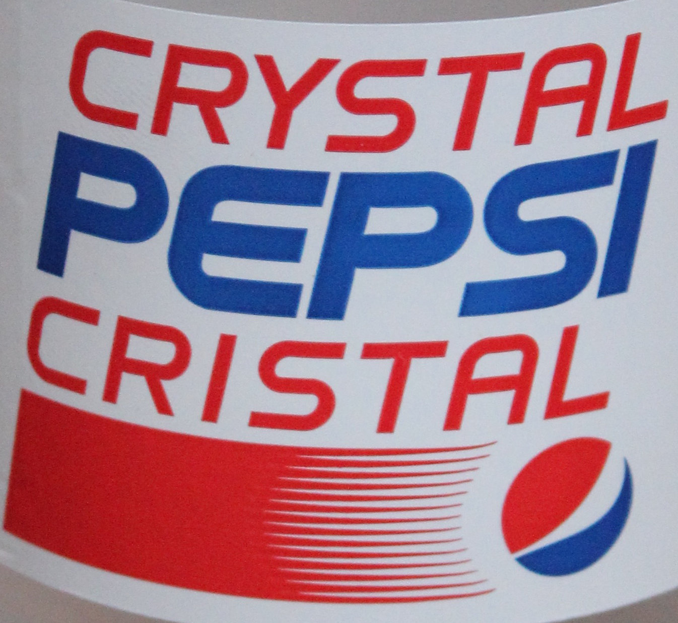 The cropped label of a Crystal Pepsi 20 oz. bottle from Canada in 2016